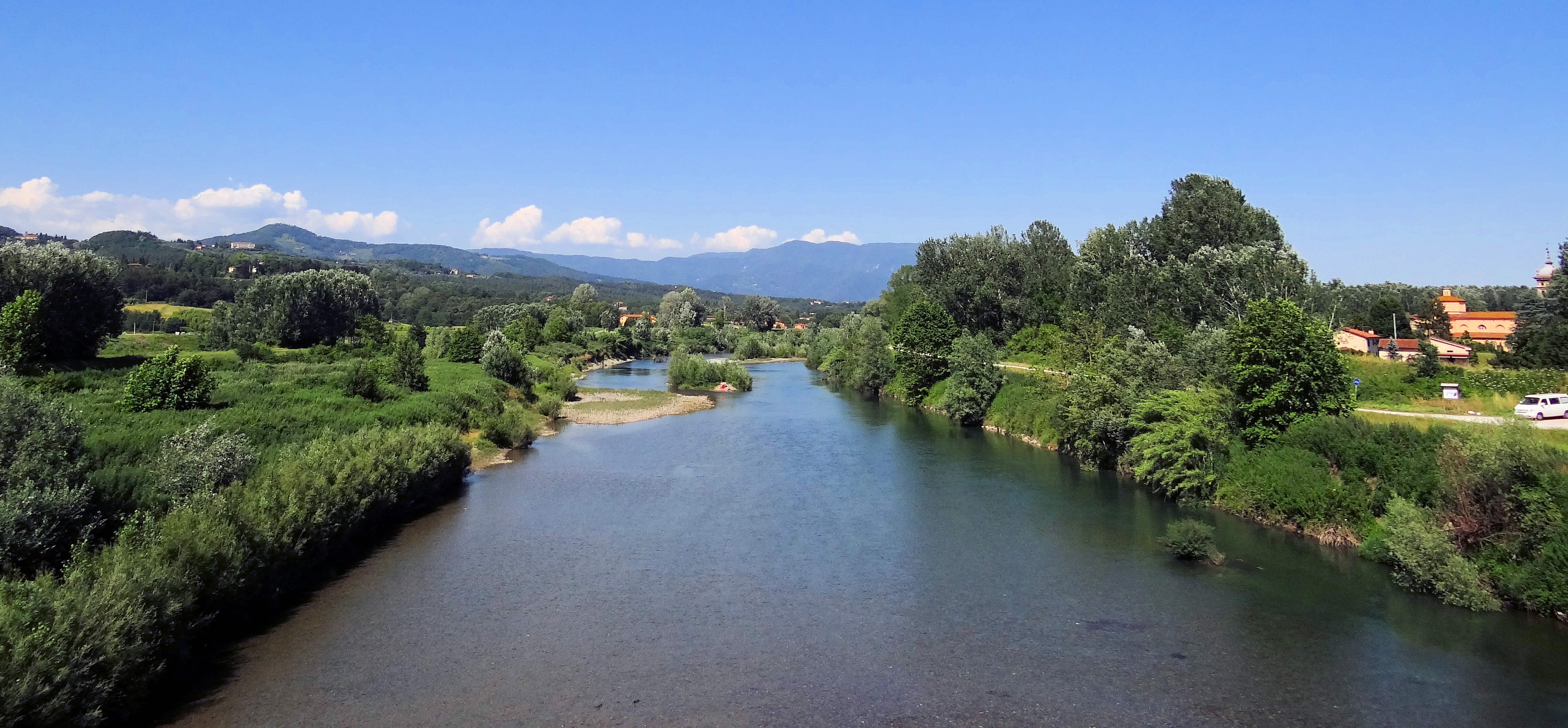 The river Serchio flowing about three kilometres west of Lucca, north of the bridge on Via Sarzanese.